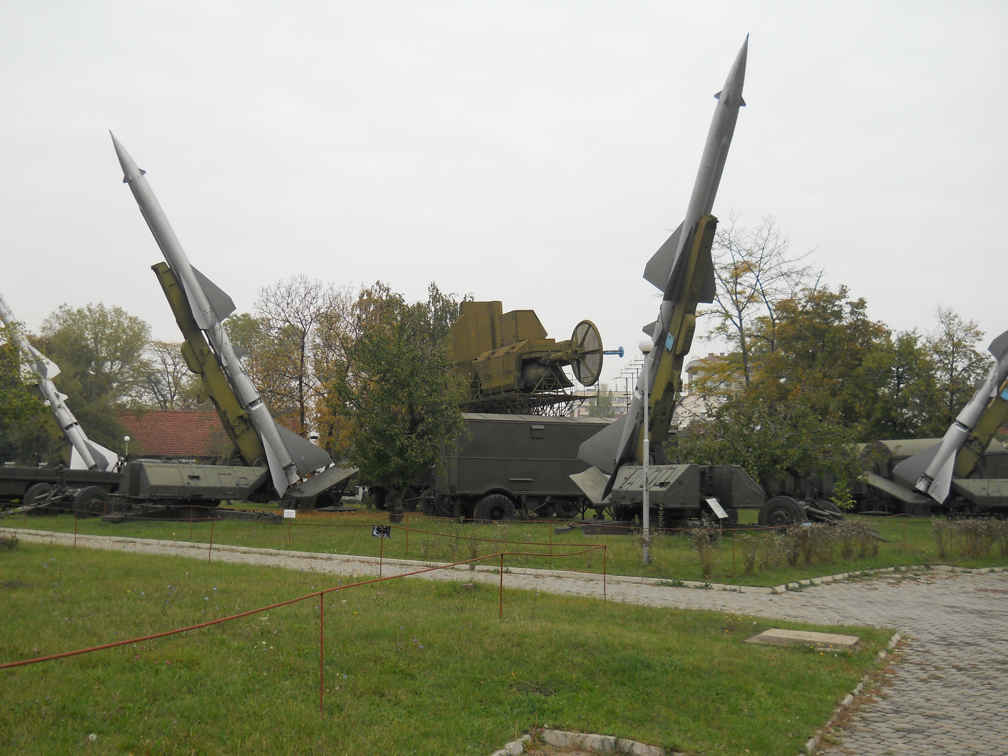 S-75 missiles (NATO-Code: SA-2 Guidline)at the National Museum of Military History, Bulgaria.